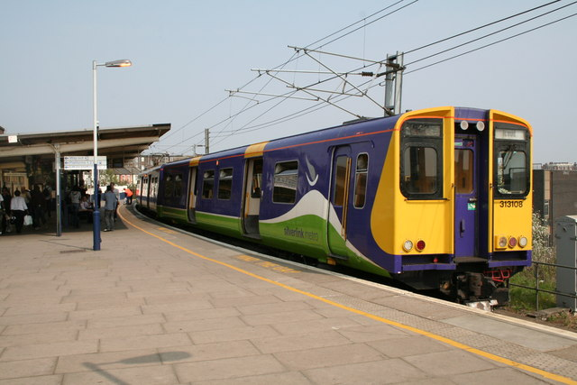 Class 313 train at Willesden High Level station This shows electric unit 313 108 ready to depart from Willesden Junction with a service to Richmond. Class 313 were the first trains with the capability of picking up electricity either from the overhead or from the third rail. They were initially used on services out of Moorgate. The train is in the rather overblown Silverlink livery, but from November 2007 these lines will become part of Transport for London's empire and new trains will be used.